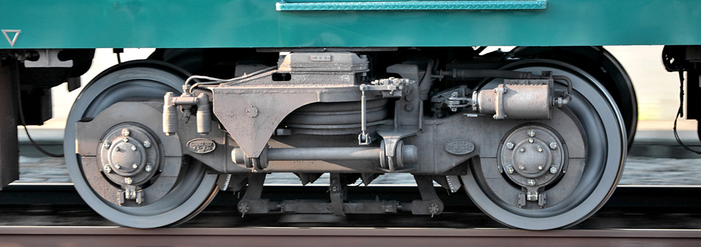 Kisya Seizo type KS73C Economical bogie truck of Keihan 2600 Series EMU ( 2707 ).